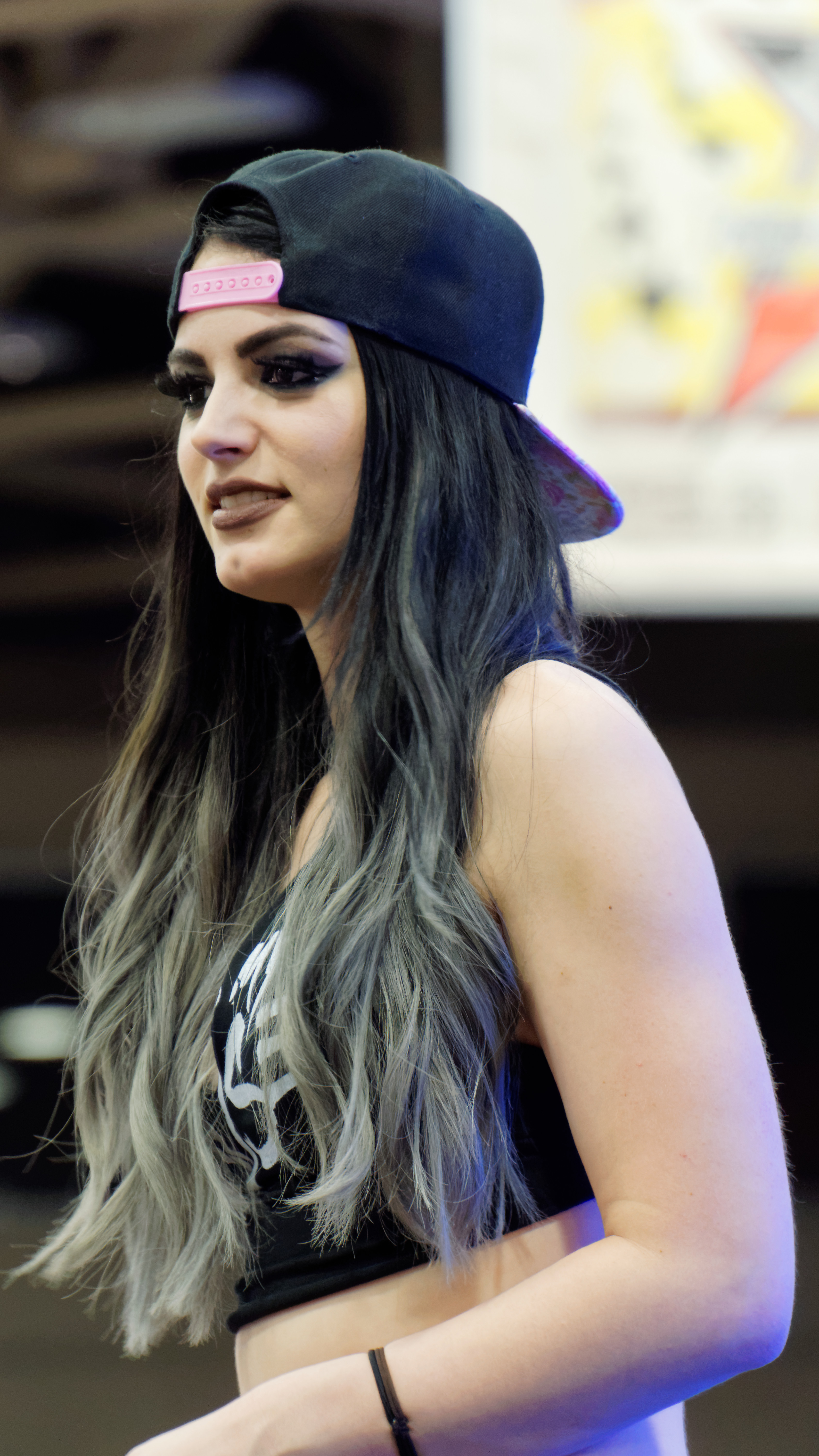 WrestleMania Axxess takes over the Kay Bailey Hutchison Convention Center in Dallas March 31-April 3. Featuring Superstar and Diva meet-and-greets, memorabilia displays and much more, WrestleMania Axxess is one event WWE fans of all ages will want to be part of. Don't miss out!